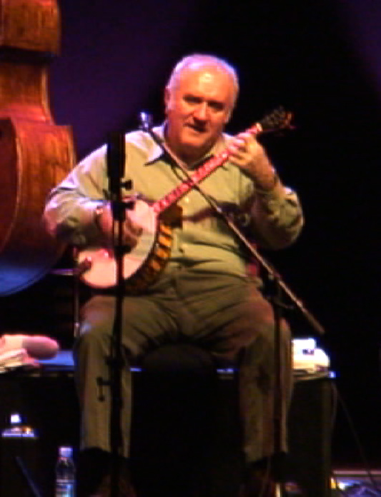 Woody Allen and his band at jazz concert in Lisbon, Portugal